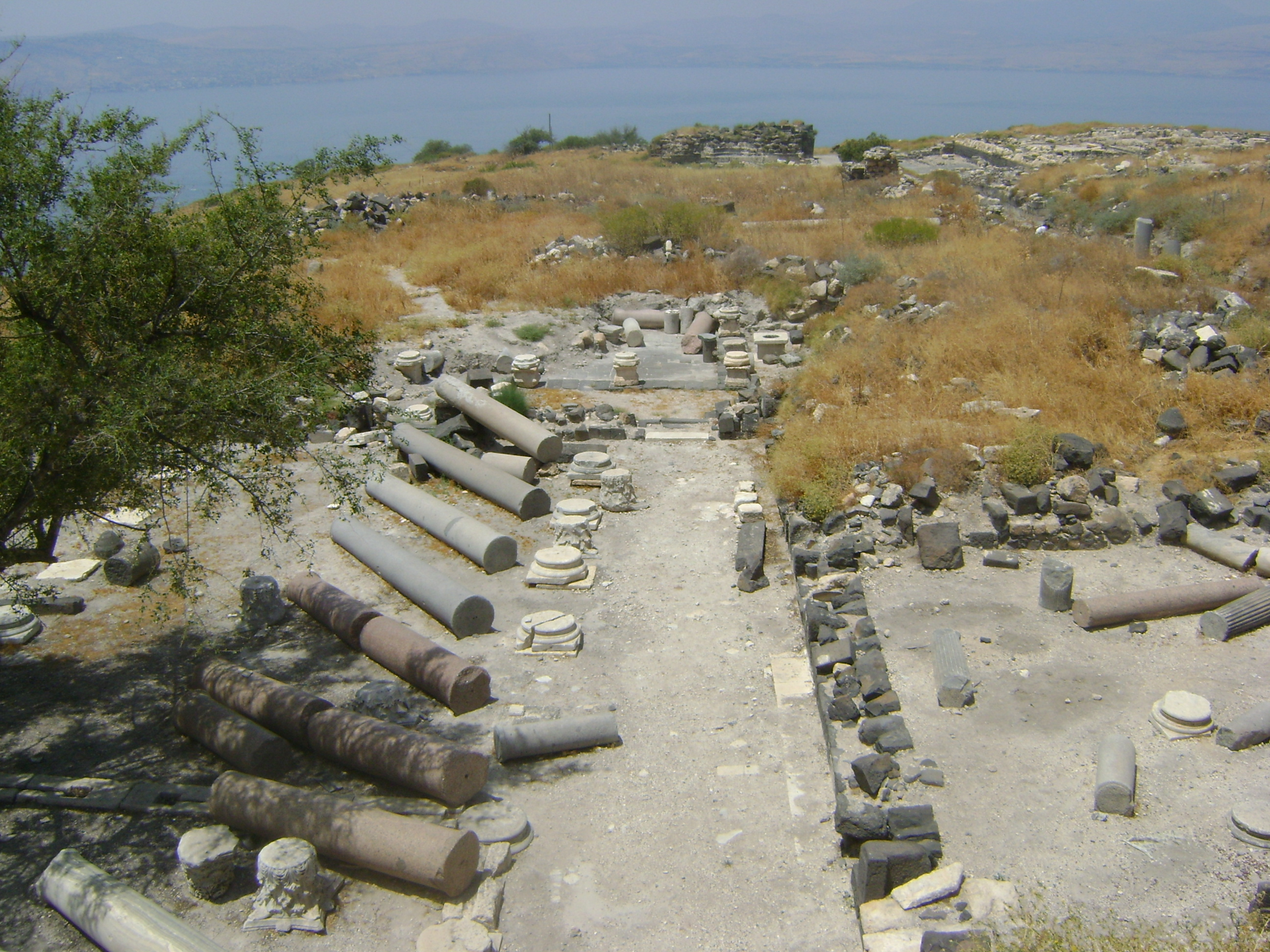 Susita, Archeological sites of Israel